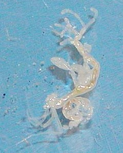 A skeleton shrimp, here a member of the species Caprella bathytatos.